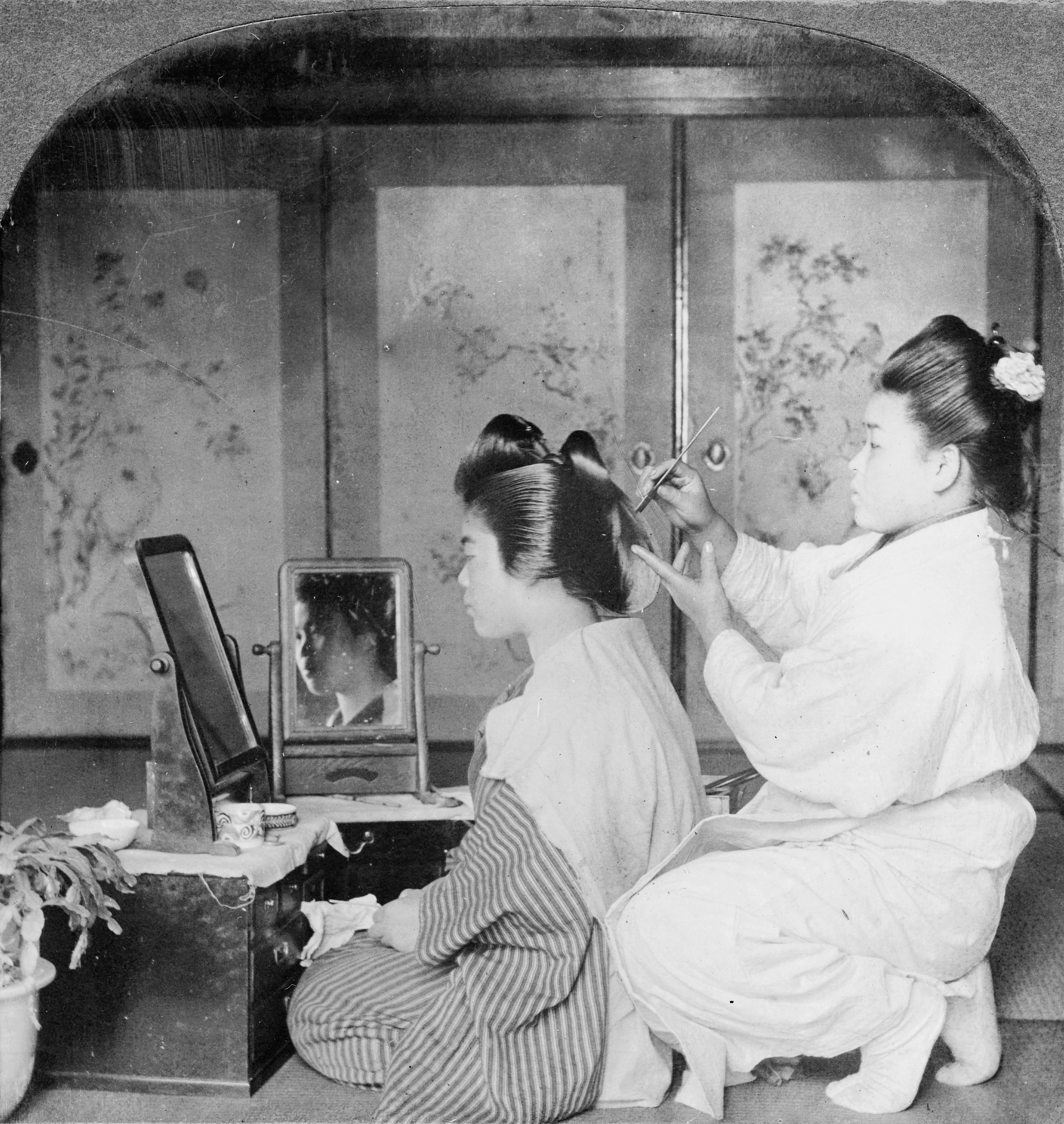 The hairdresser making a call, Japan, 1905